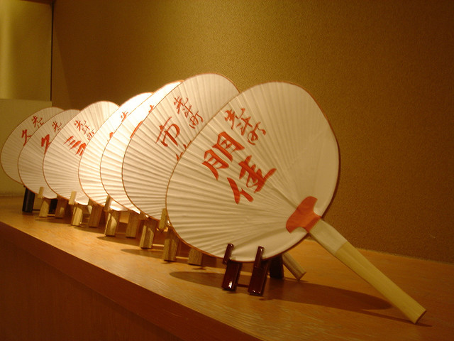 Japanese fans "uchiwa", given by maikos. Each cares the gifter's name.